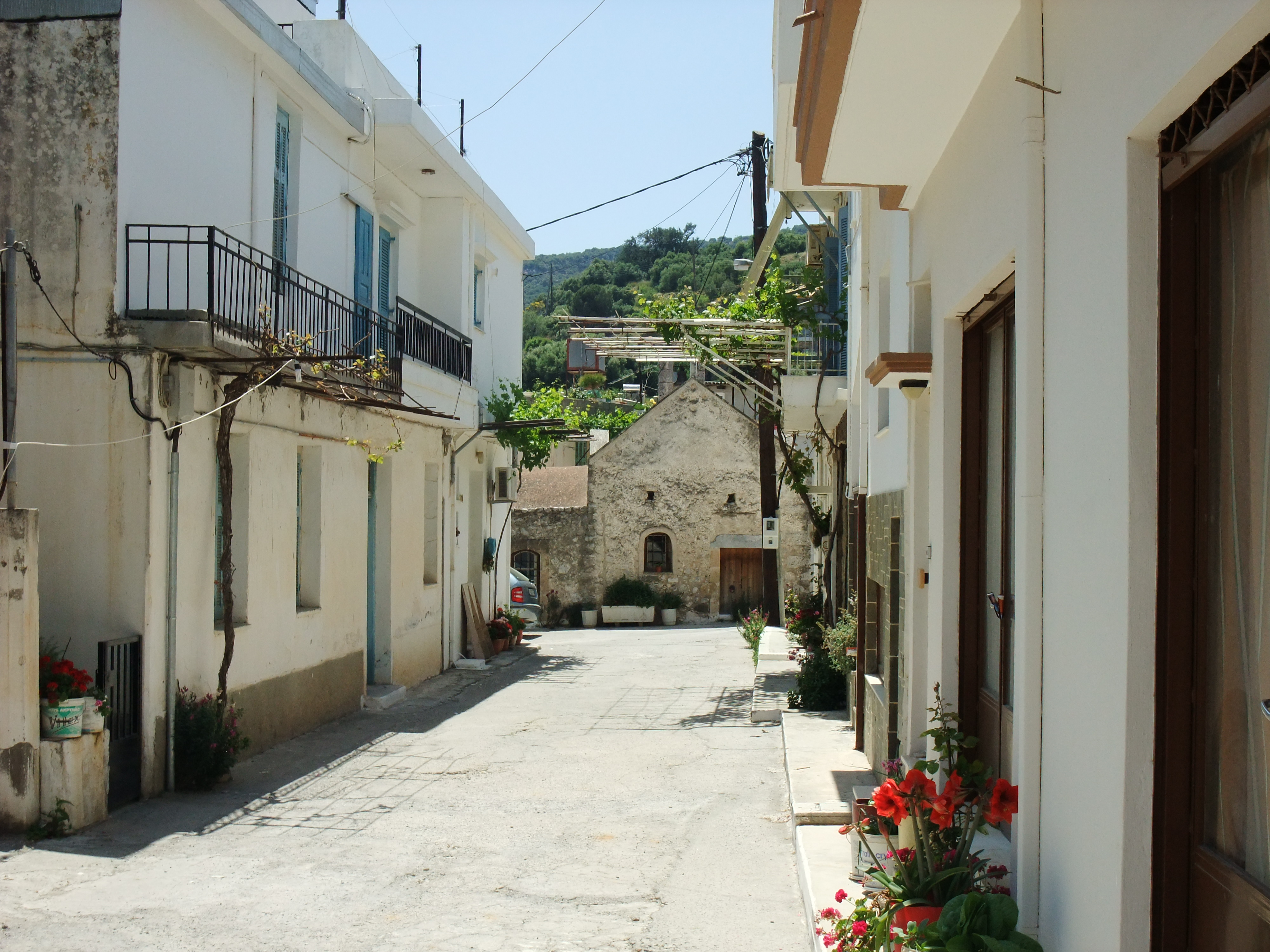 Street in Kritsa, Crete, Greece